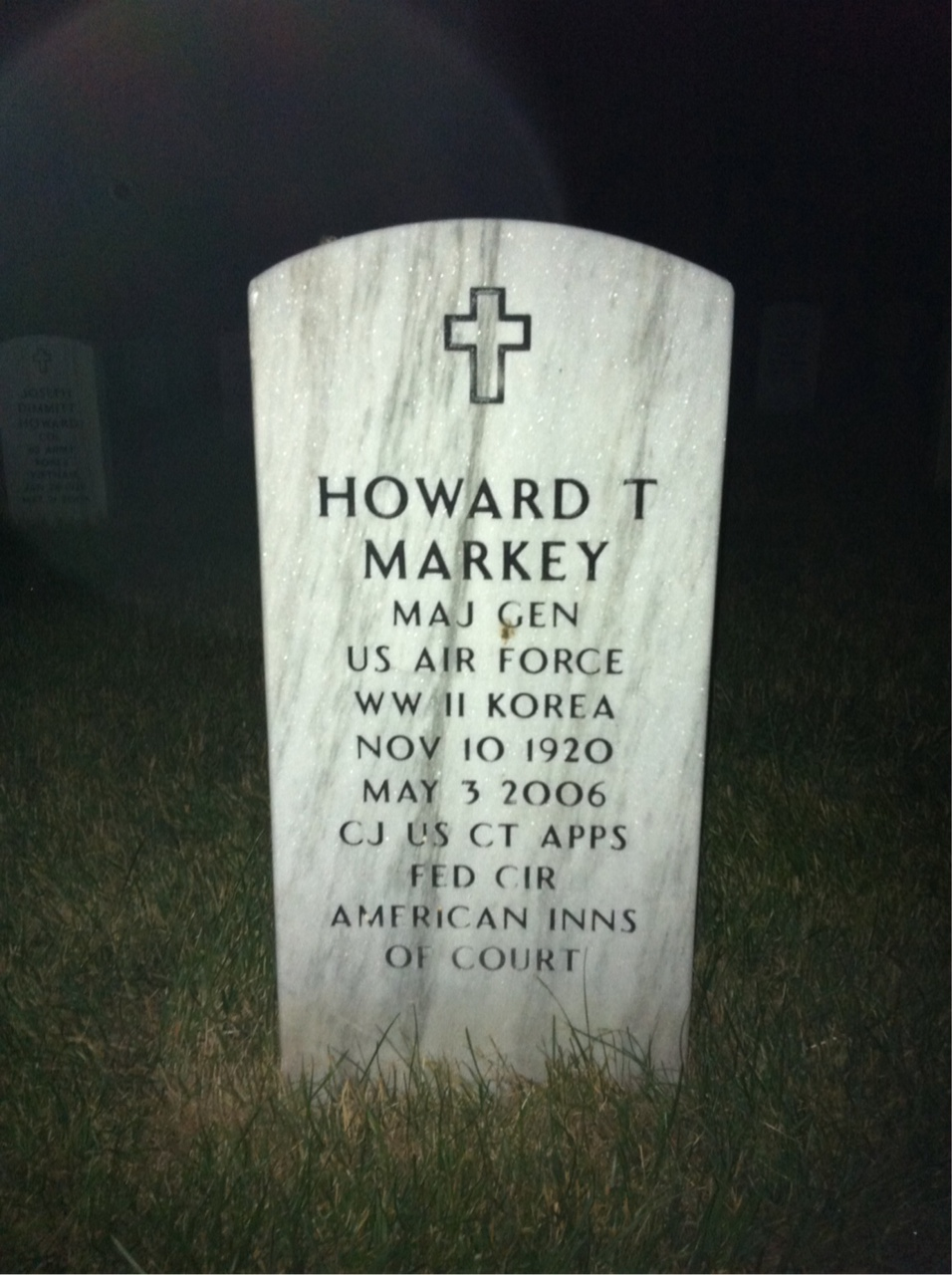 Grave of Howard Thomas Markey at Arlington National Cemetery